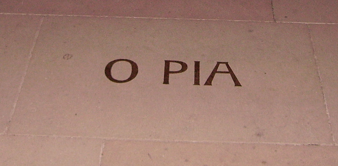 cathedral of Speyer in Rhineland-Palatinate, Germany